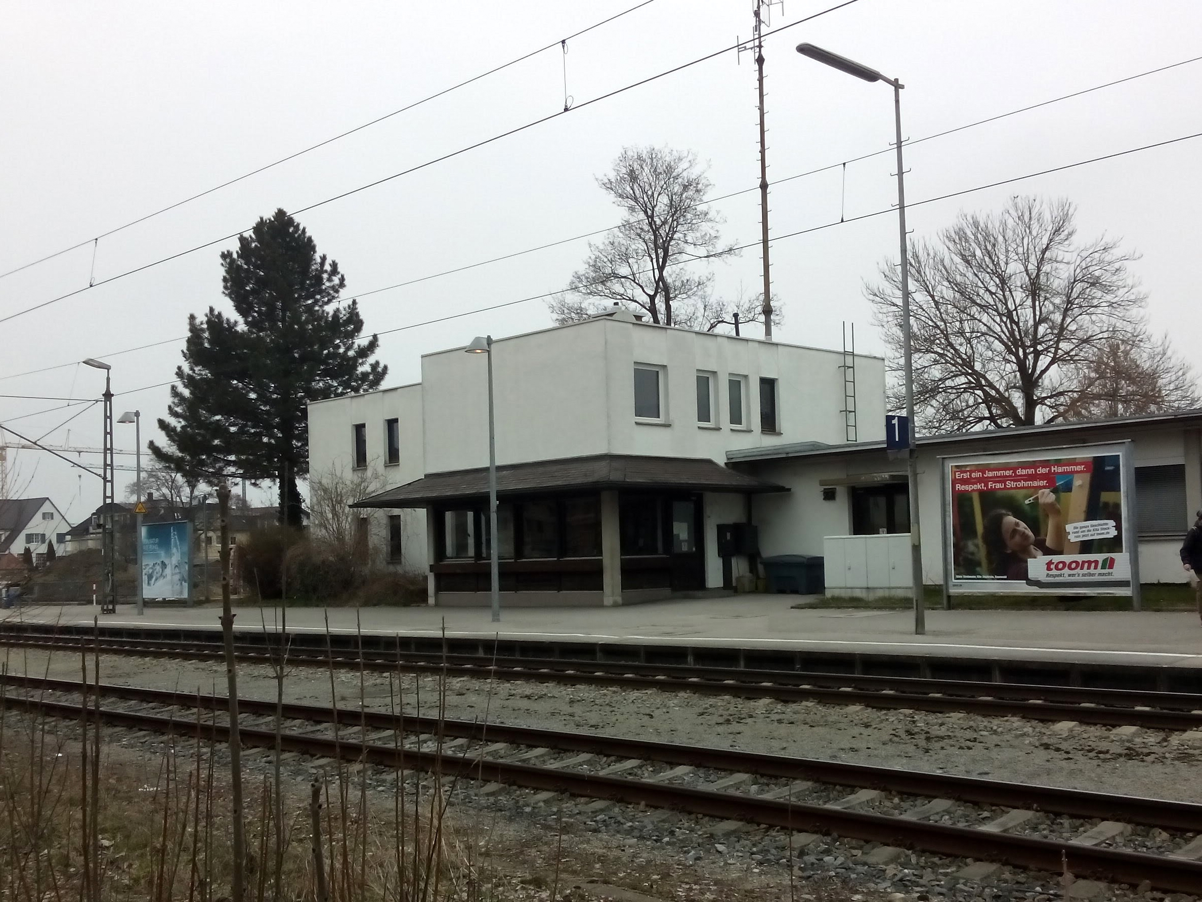 Signalling centre at the Bad Aibling railway station of the Mangfall valley railway. This dispatch office of type Sp Dr S60 was put into operation in 1977.